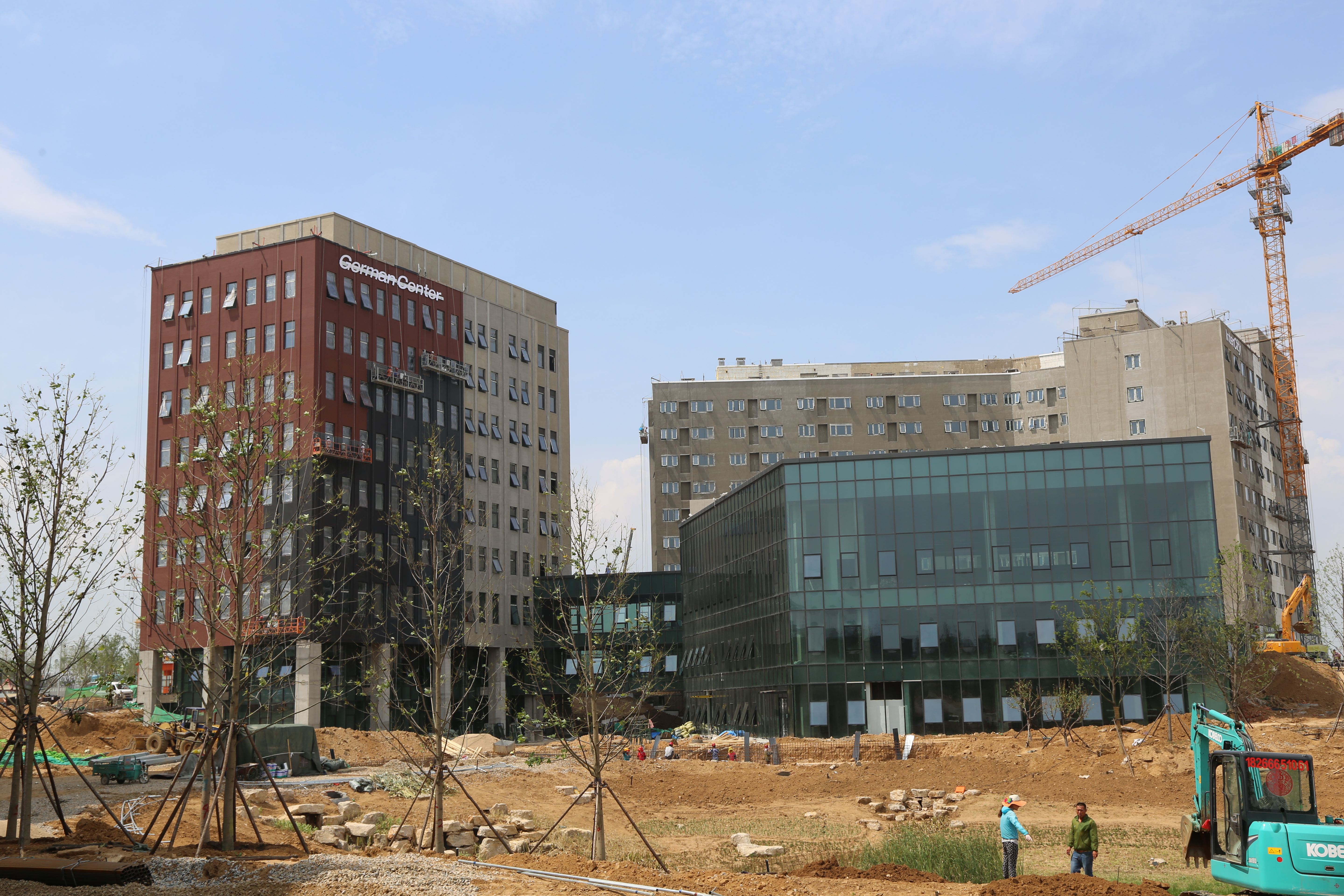 Construction-site of German Business Center in Sino-German Ecopark in Qingdao